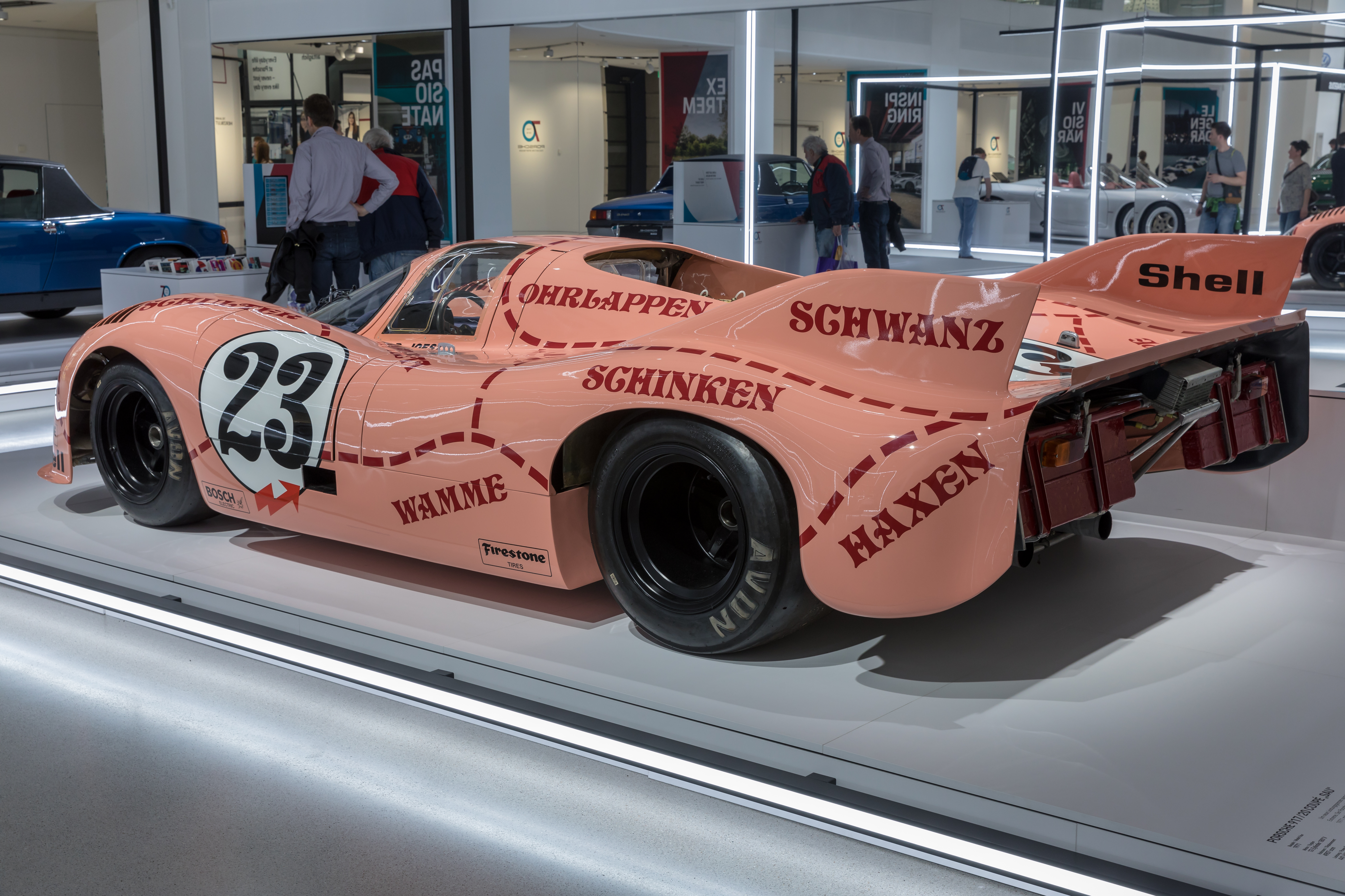 Porsche 917, DRIVE. Volkswagen Group Forum